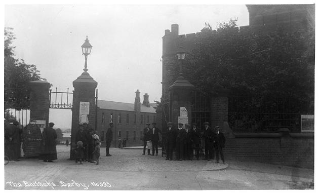 Postcard of Normanton Barracks in Derby